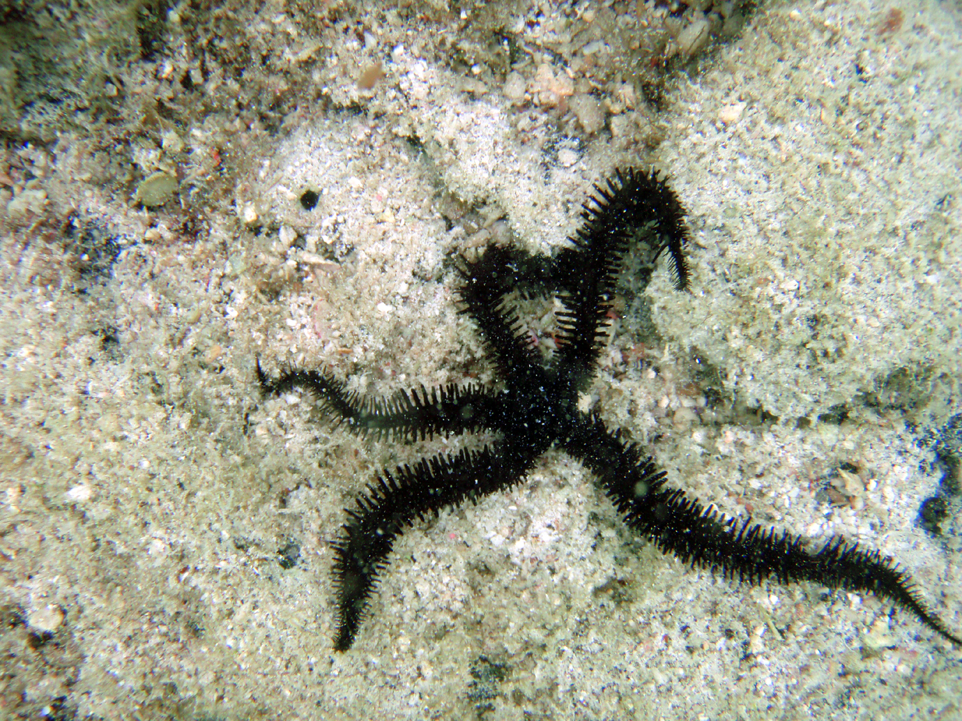 Brittle star on the Big Island of Hawaii